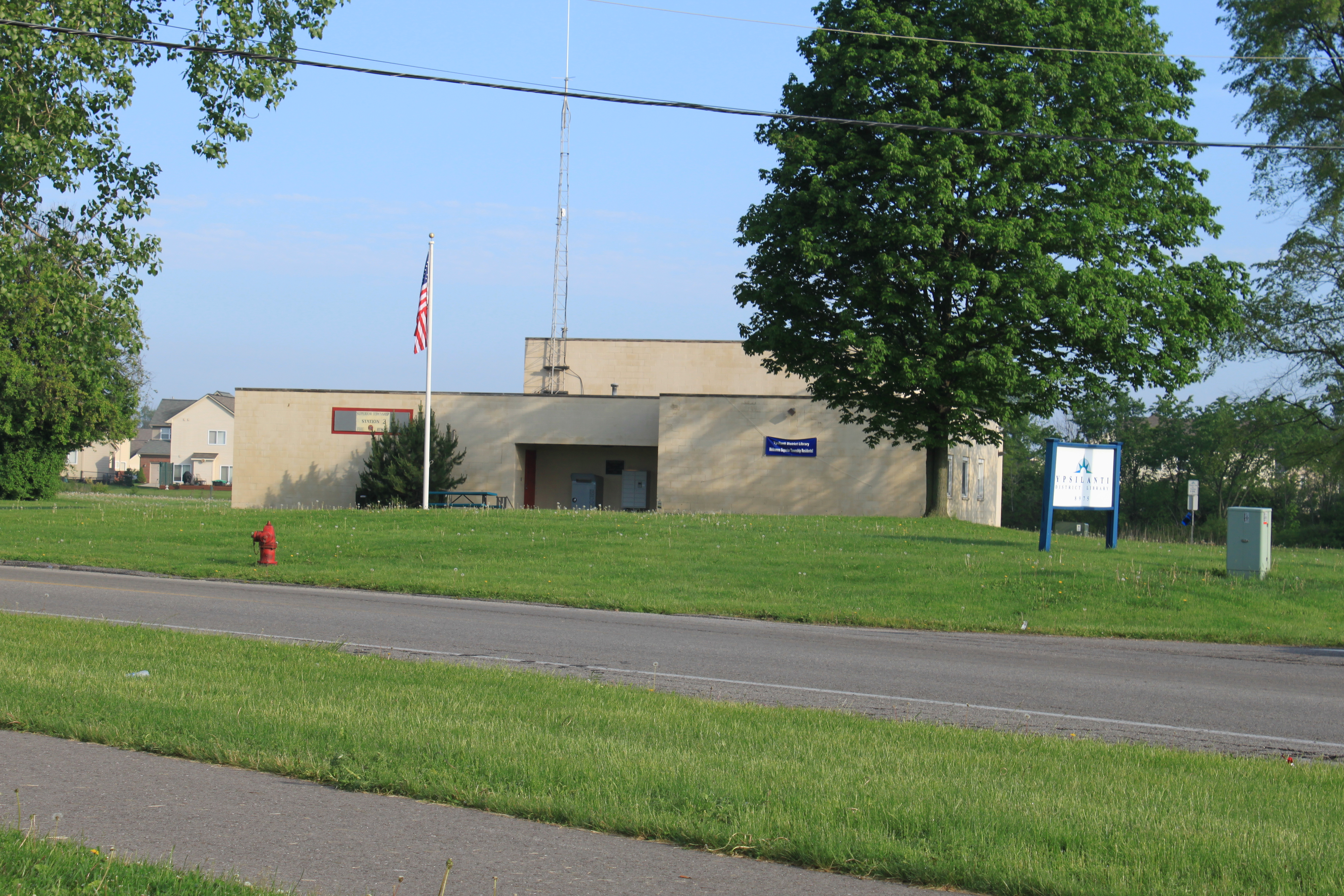 Ypsilanti District Library 8975 MacArthur Boulevard, Superior Township